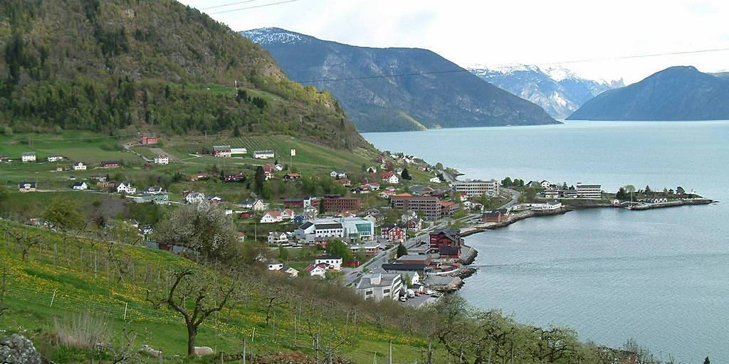 The picture is centrum of Hermansverk a part of Leikanger Municipality. You also see a small part of the Sognefjord.